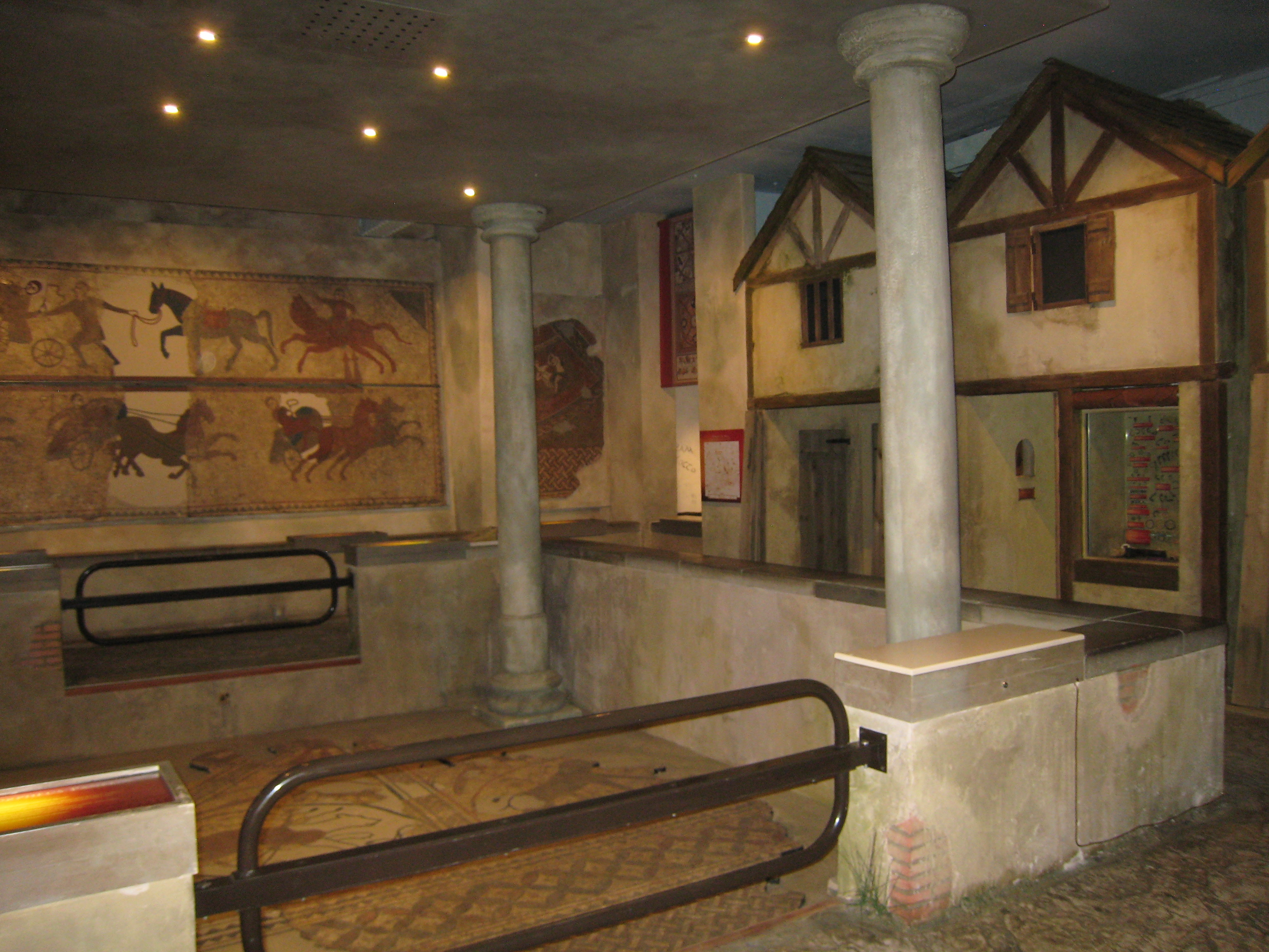 Part of a reconstruction of Peturia, the former Roman settlement near Brough, in the Hull and East Riding Museum